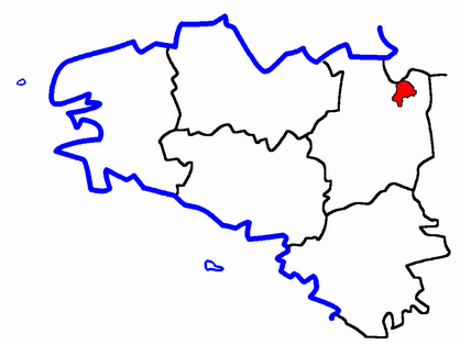 Description: Map for localisazion of cantons of Bretagne region in France Source: made by Hervé Tigier from another large map (published in 1990)